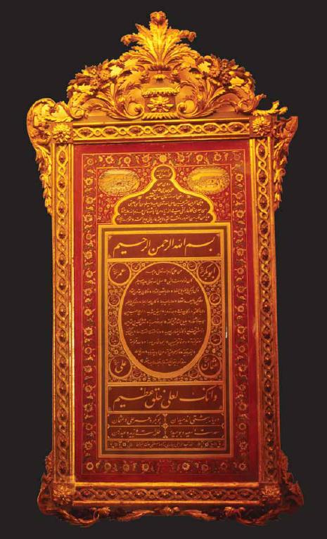 Hilye by Yesârizade Mustafa Izzet Efendi (d. 1849). Gilded panel with talik script. (Museum of Galata Mevlevihanesi).